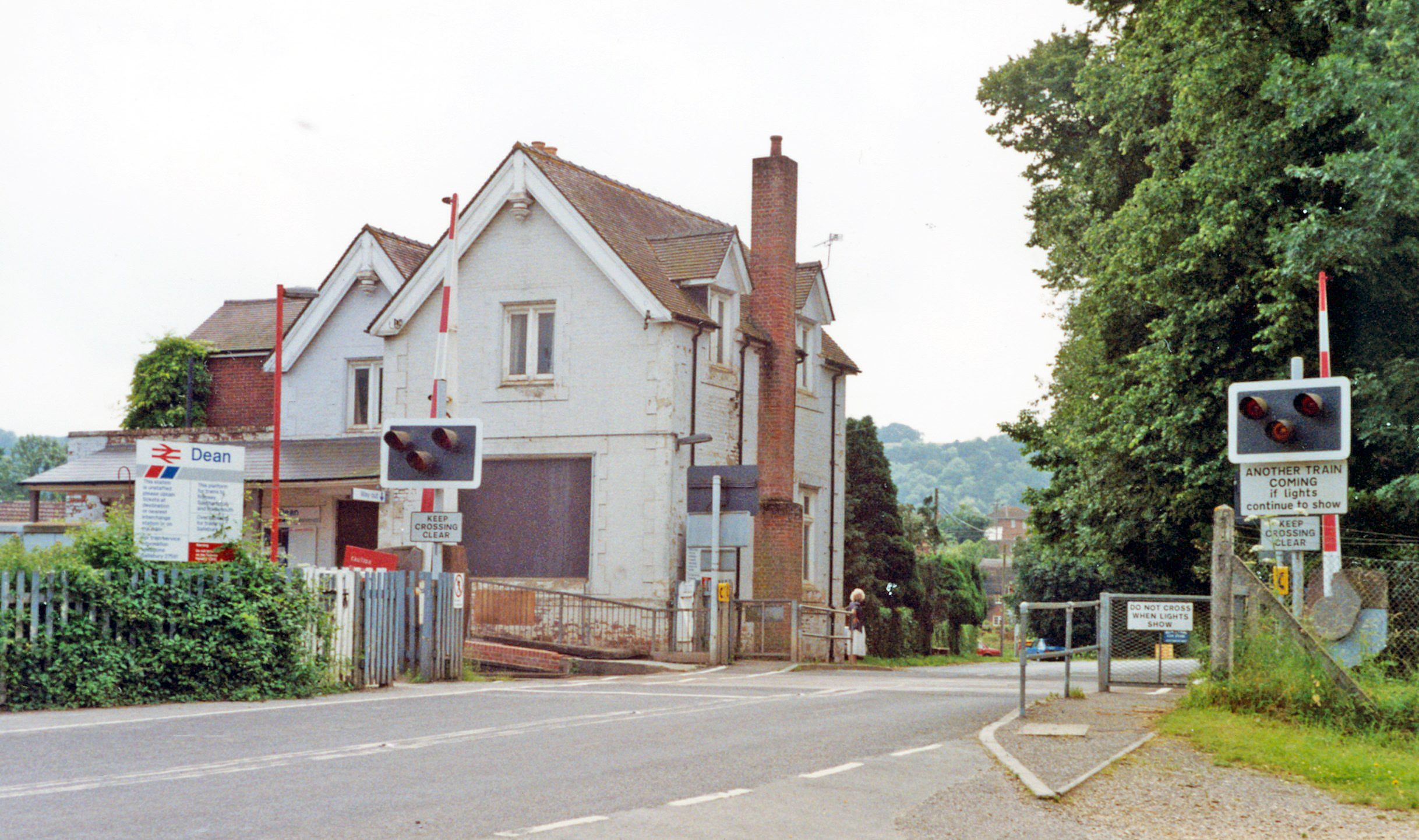 Dean station and level-crossing, 1991. View southward across ex-LSWR Salisbury - Romsey - Eastleigh/Southampton secondary main line.